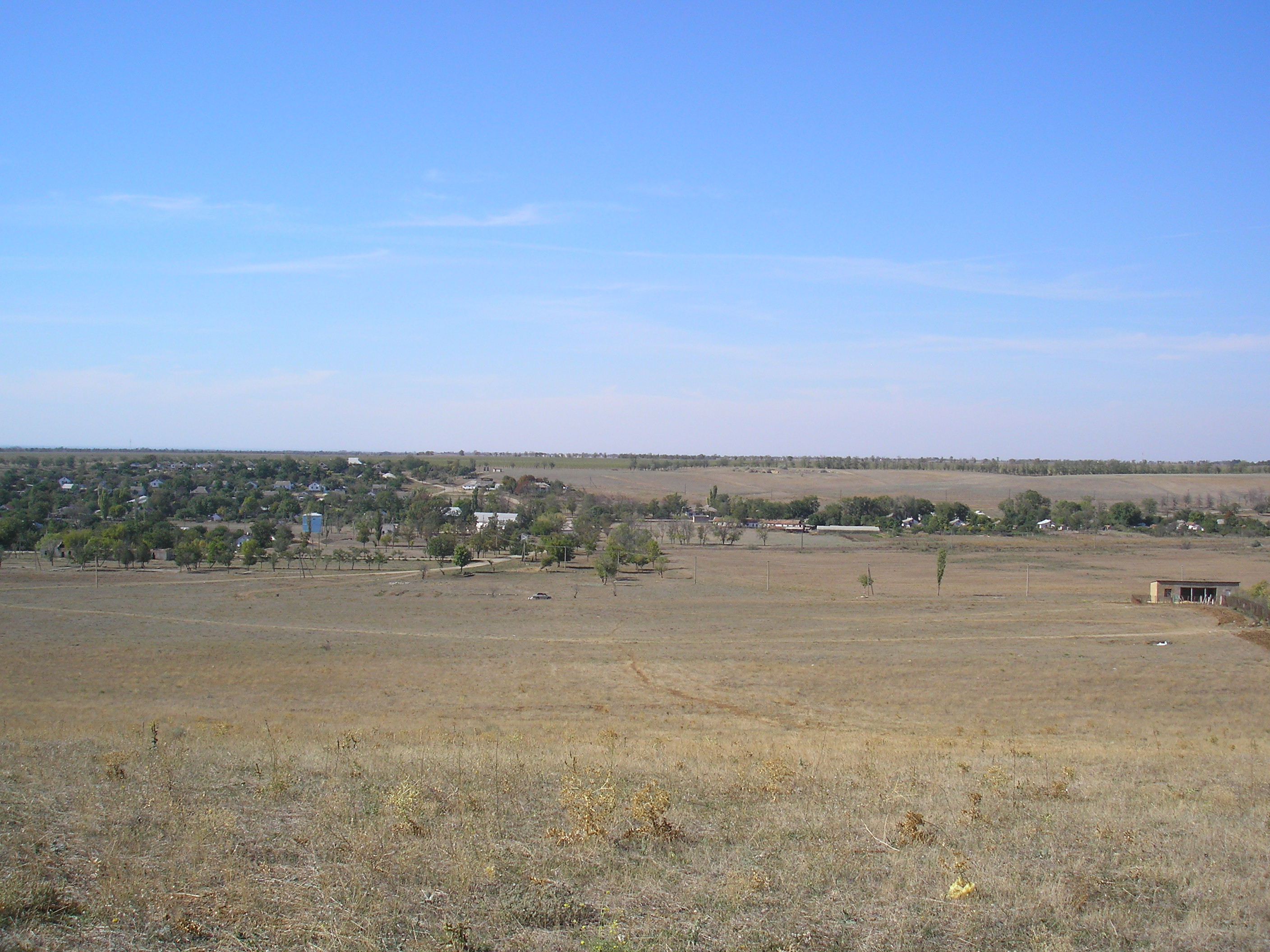 Village Ravnopolye, Simferopol district, Crimea